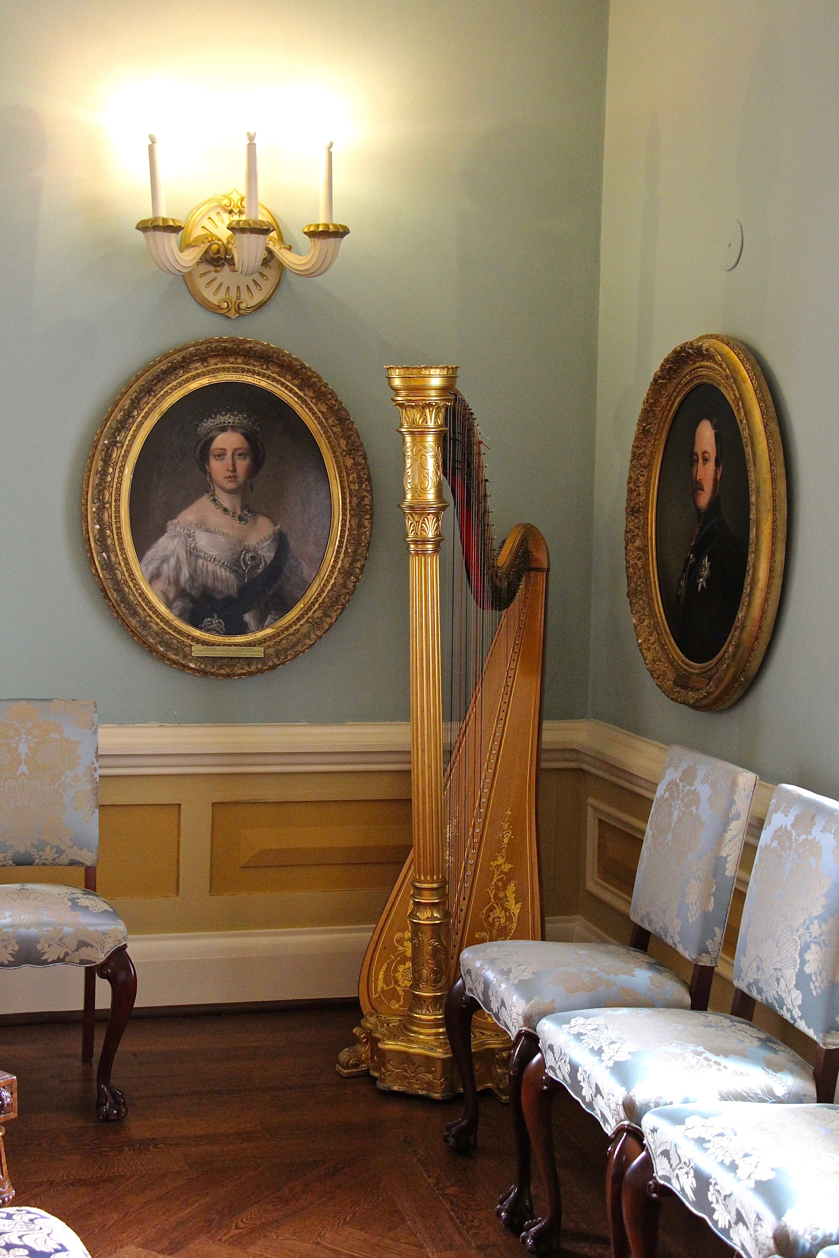 Antichamber of the Ball room, Rideau Hall, 1 Sussex Drive, Ottawa, ON K1A 0A1.